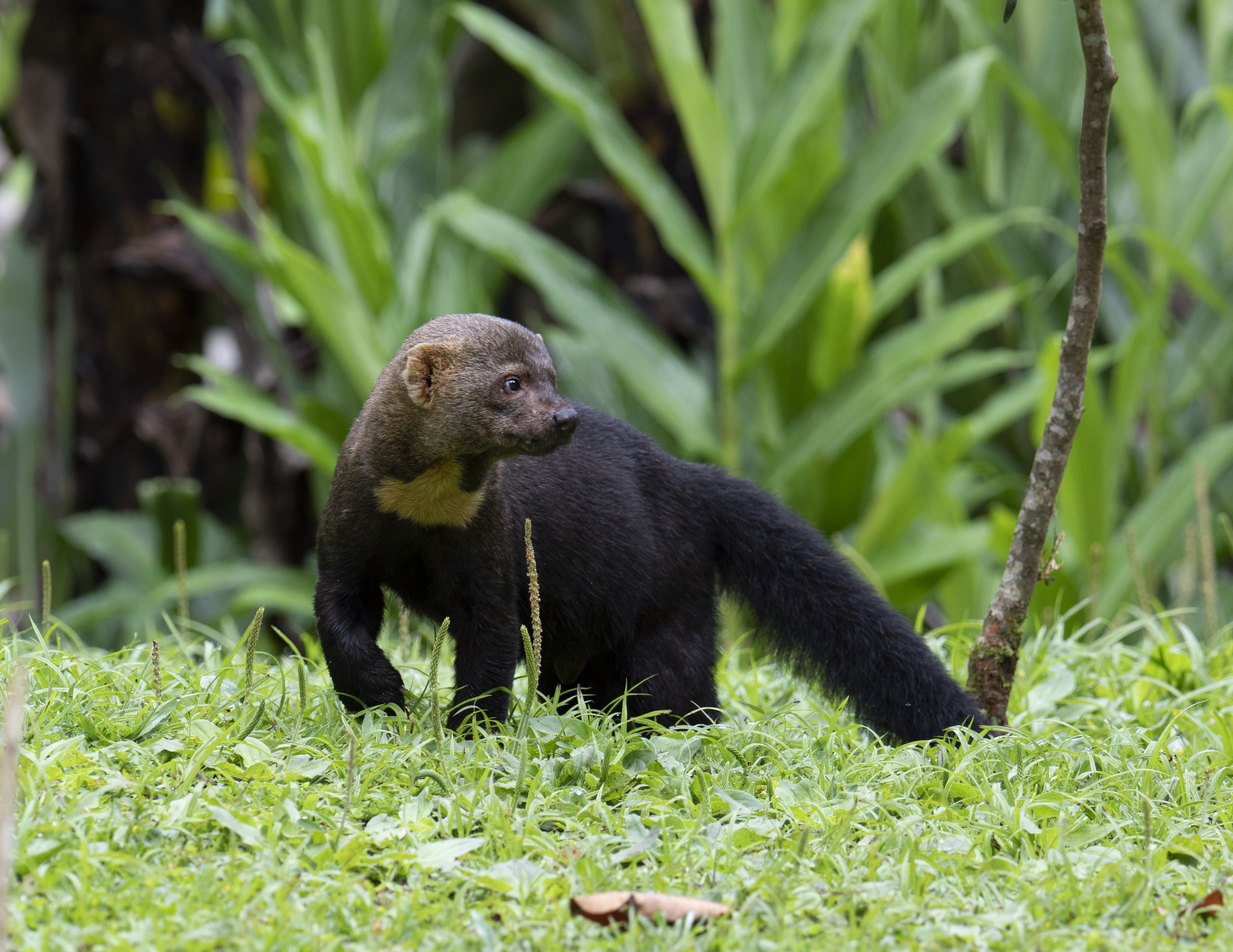 Tayra, a carnivoran mammal in the weasel family. Male in the wild.